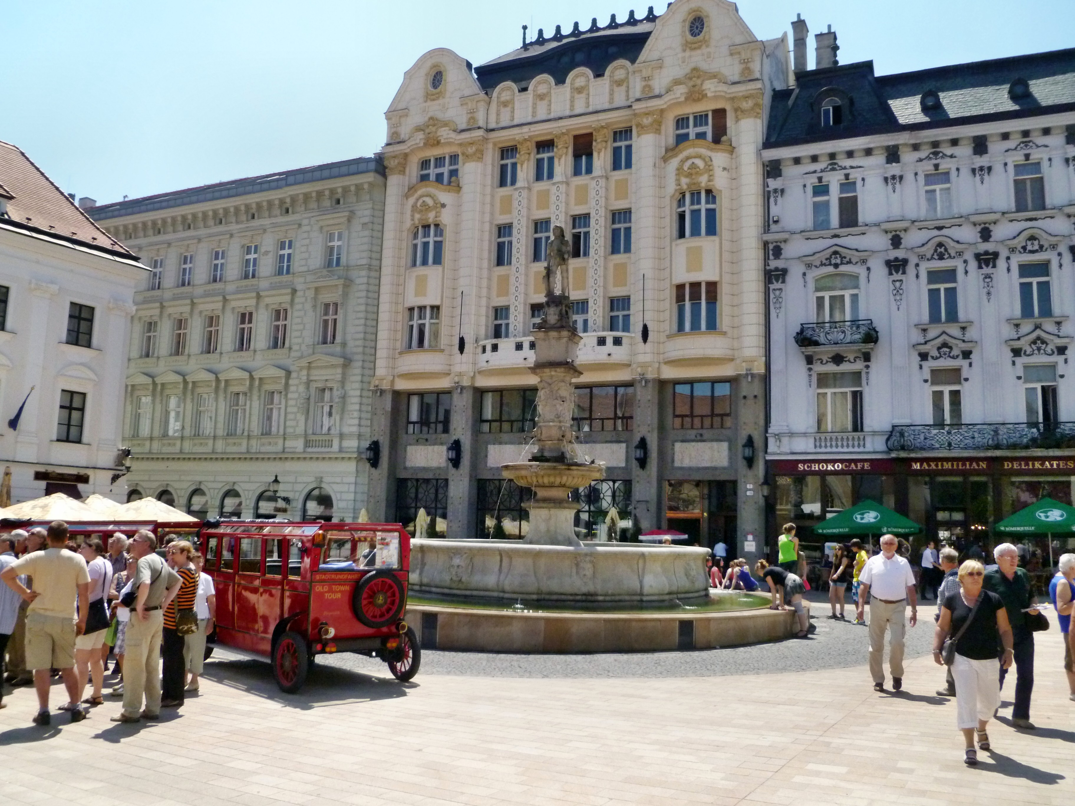 Main Square, Bratislava, Slovakia